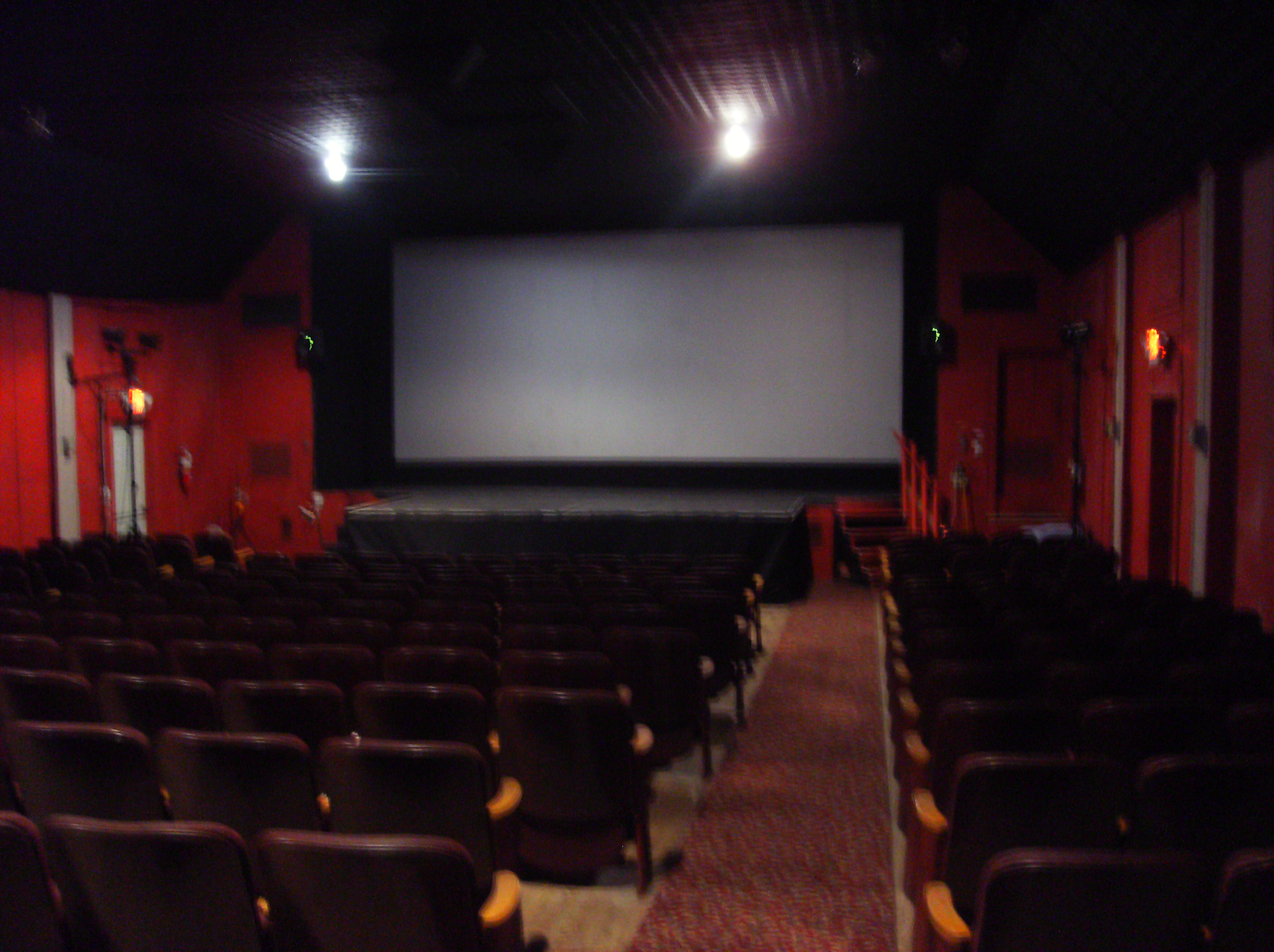 The interior of the Rosendale Theatre, showing several rows of seats, as well as the theater's screen and raised stage.